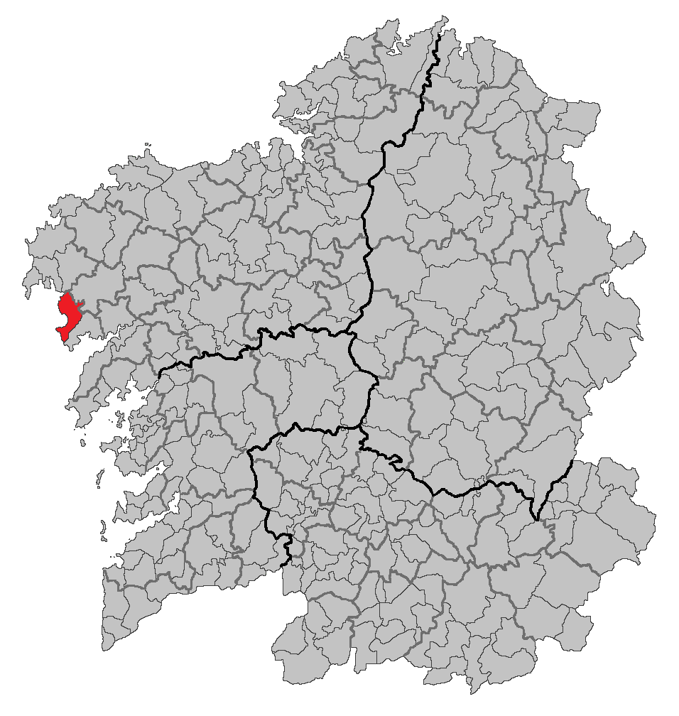 Location map of Carnota, A Coruña, Galicia